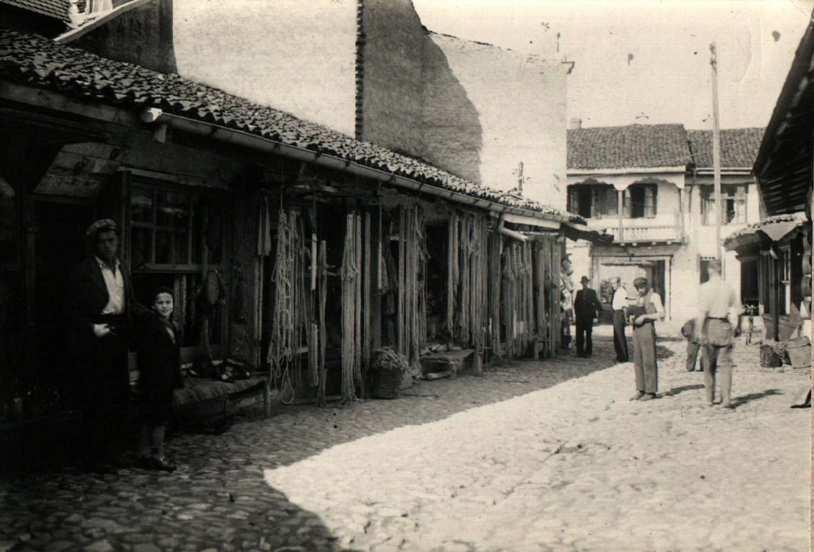 Market in Skopje, Macedonia